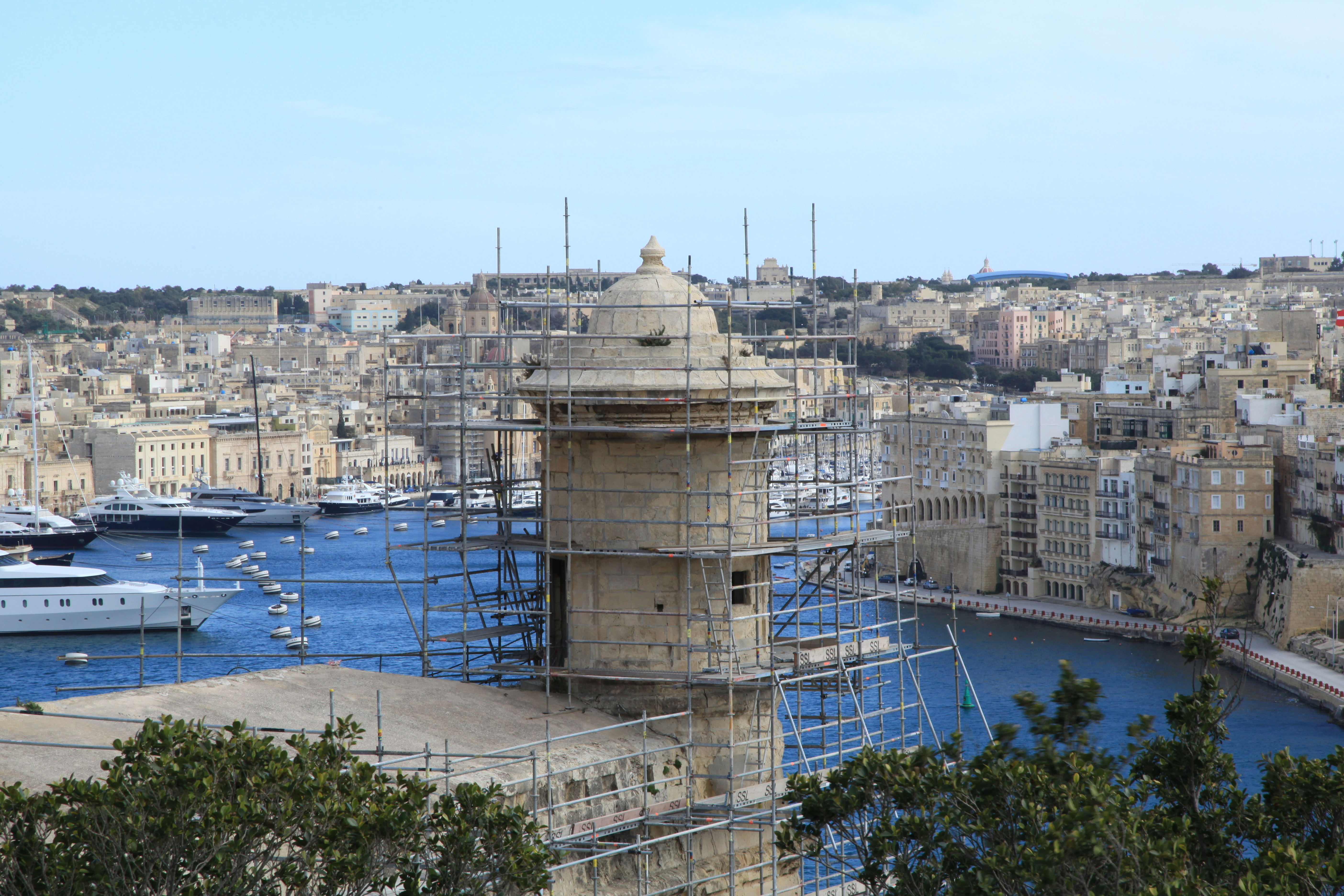 View from Triq Girolamo Cassar to the SS Peter and Paul Counterguard in Valletta, Malta